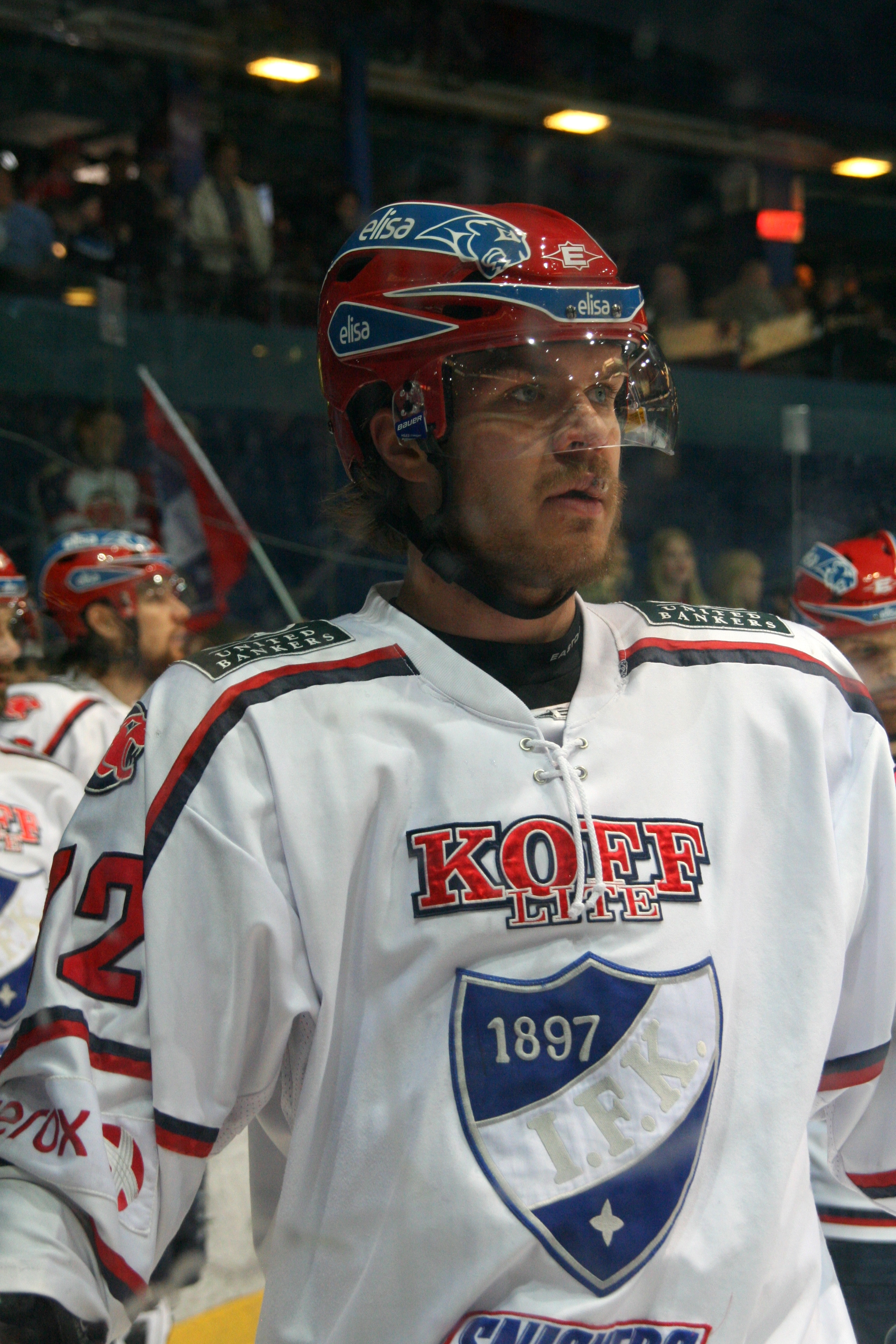 Ice Hockey Team Helsingin IFK's Attacker #72 Siim Liivik